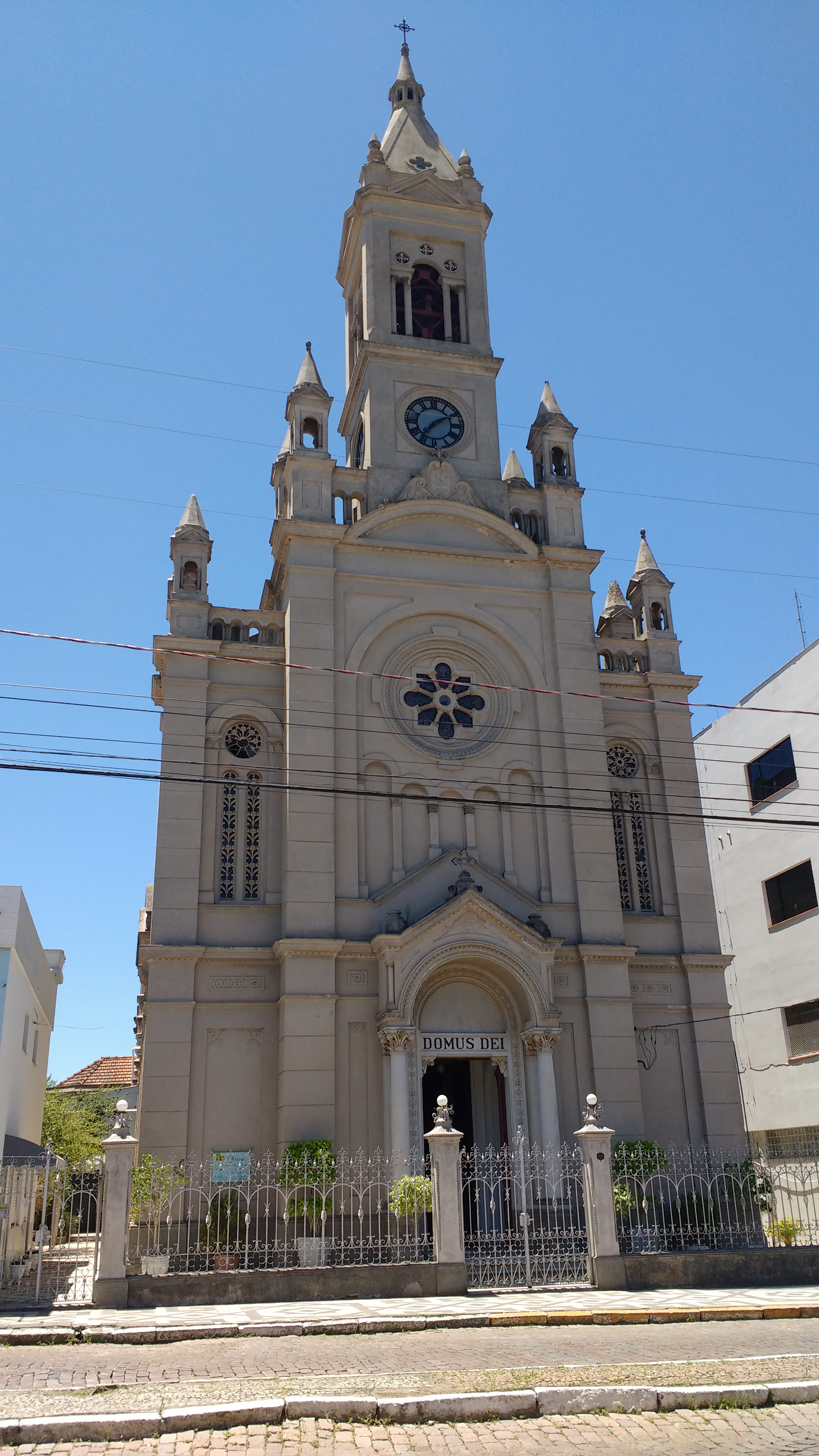 Church of Our Lady Help of Christians in Bagé, Brazil.